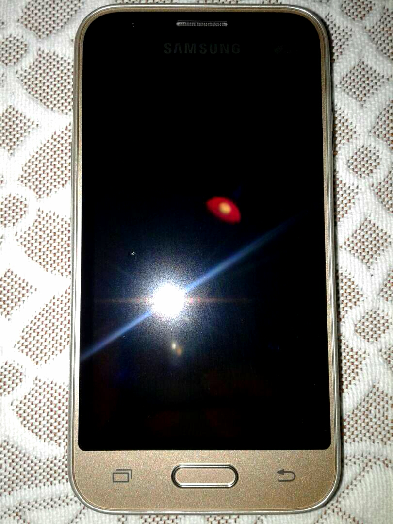 Subject: smart phone Name: Samsung galaxy j1 mini prime (nxt) Color: gold